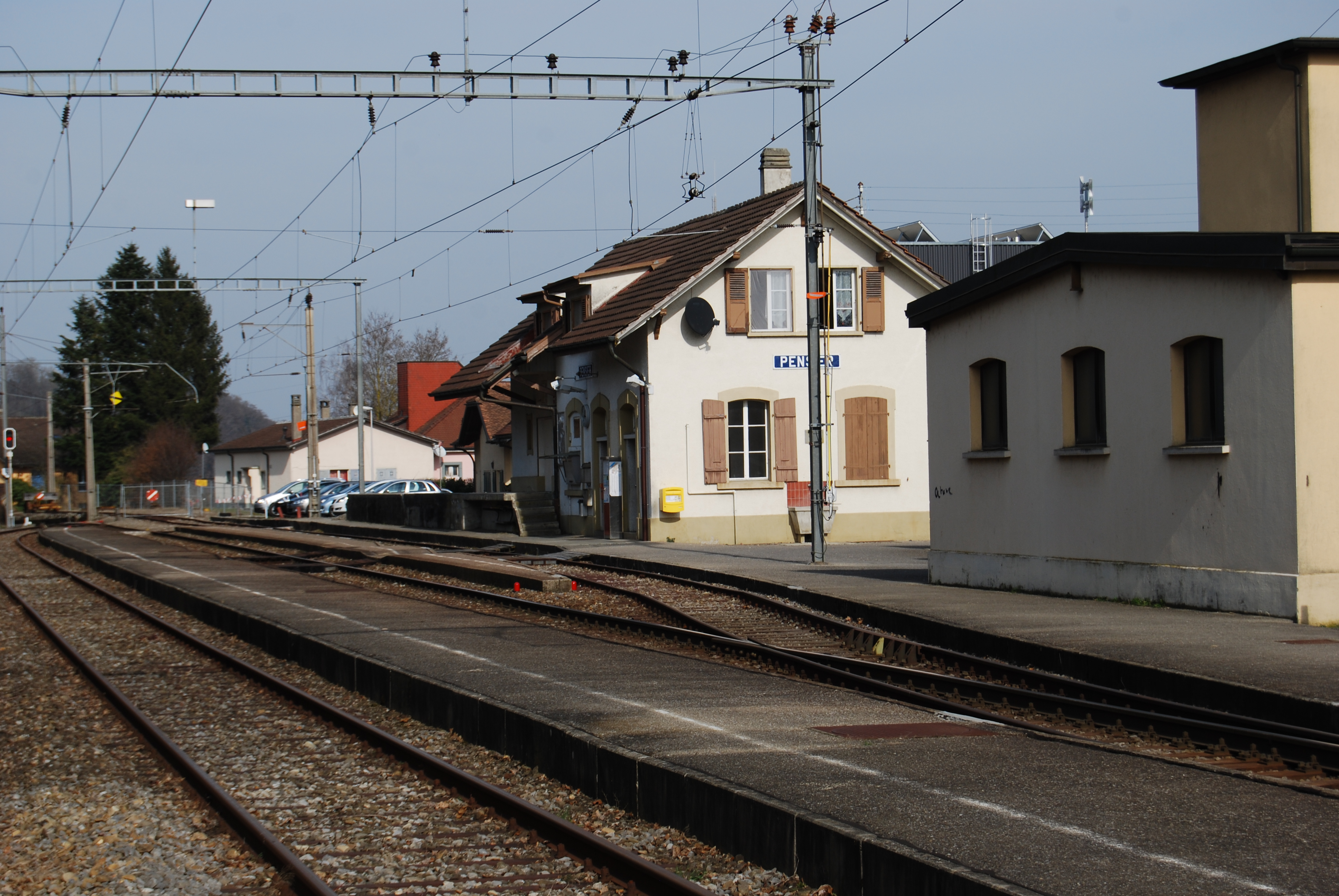 Trainstation of Pensier, Barberêche, canton of Fribourg, Switzerland